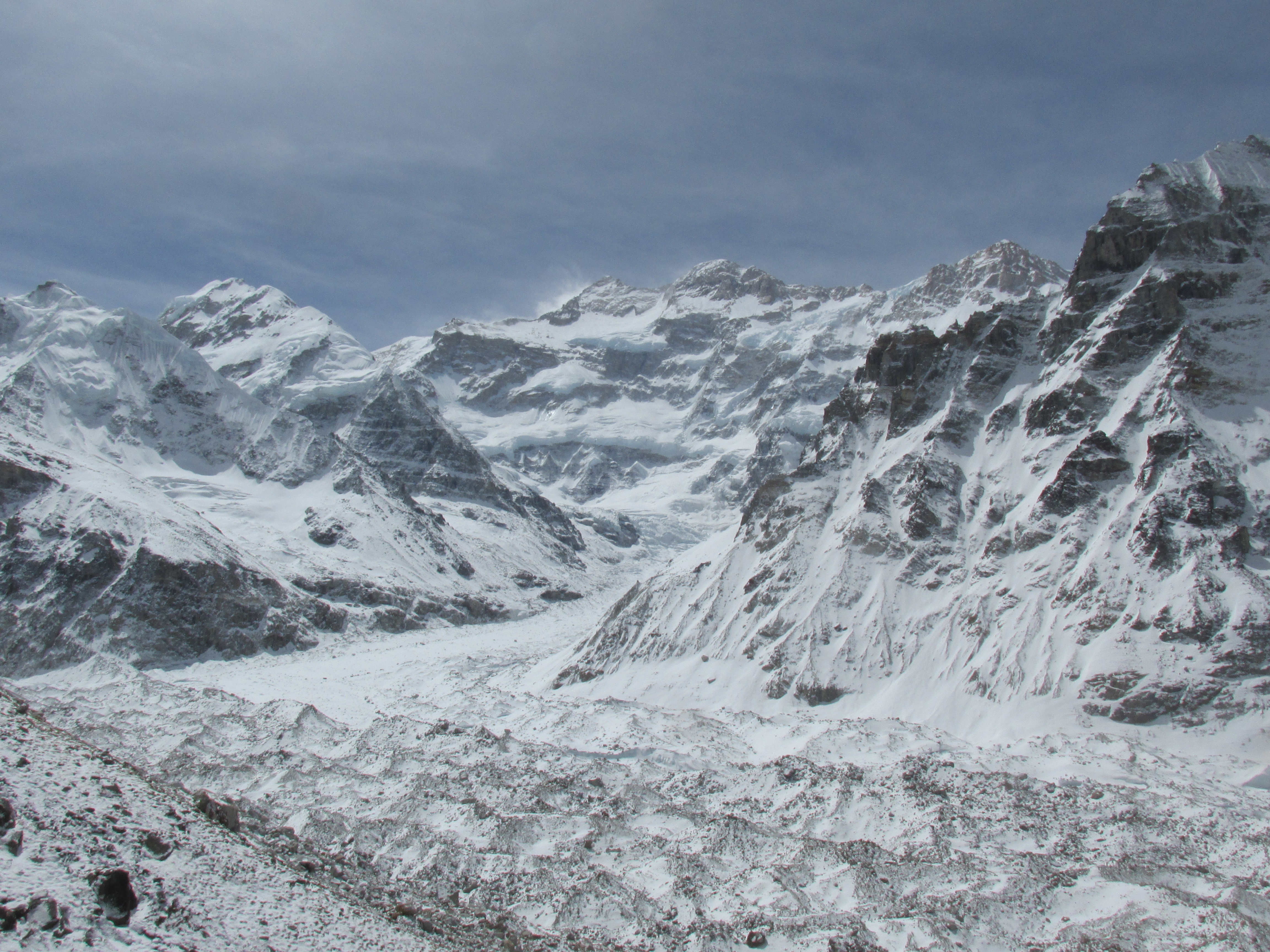 taken from Nepal base camp